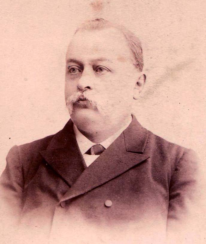 Stanisław Rohn